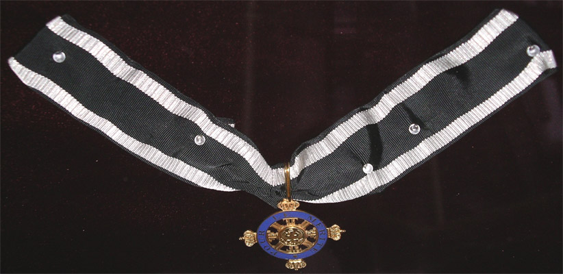 Order Pour le Mérite for Sciences and Arts